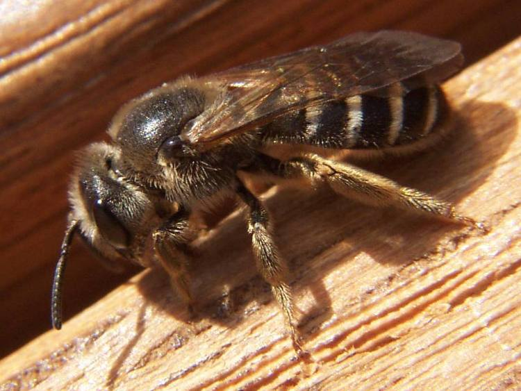 sweat bee Halictus sp. Location: West Chicago Prairie, DuPage County, Illinois, USA.